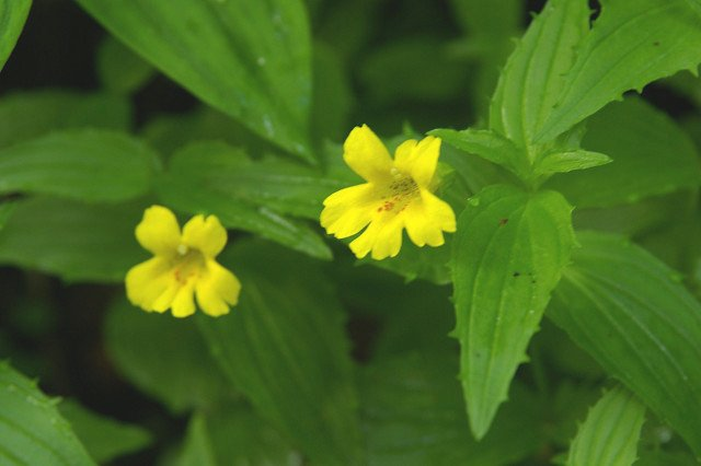 Mimulus sessilifolius (Mt. Tomuraushi, Hokkaido, Japan)